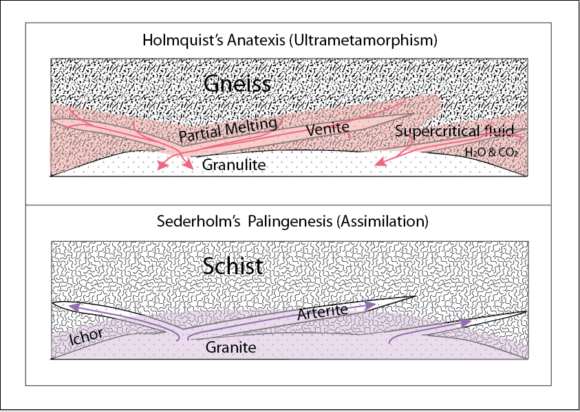 Sederholm (1907) called the migmatite-forming process palingenesis, and although it specifically included partial melting and dissolution, he also regarded magma injection and its associated veined and brecciated rocks as fundamental to the process. Holmquist (1916). found high-grade gneisses that contain many small patches and veins of granitic material. As there were no granites nearby, he interpreted the patches and veins to be the collection sites for partial melt exuded from the mica-rich parts of the host gneiss. Migmatite